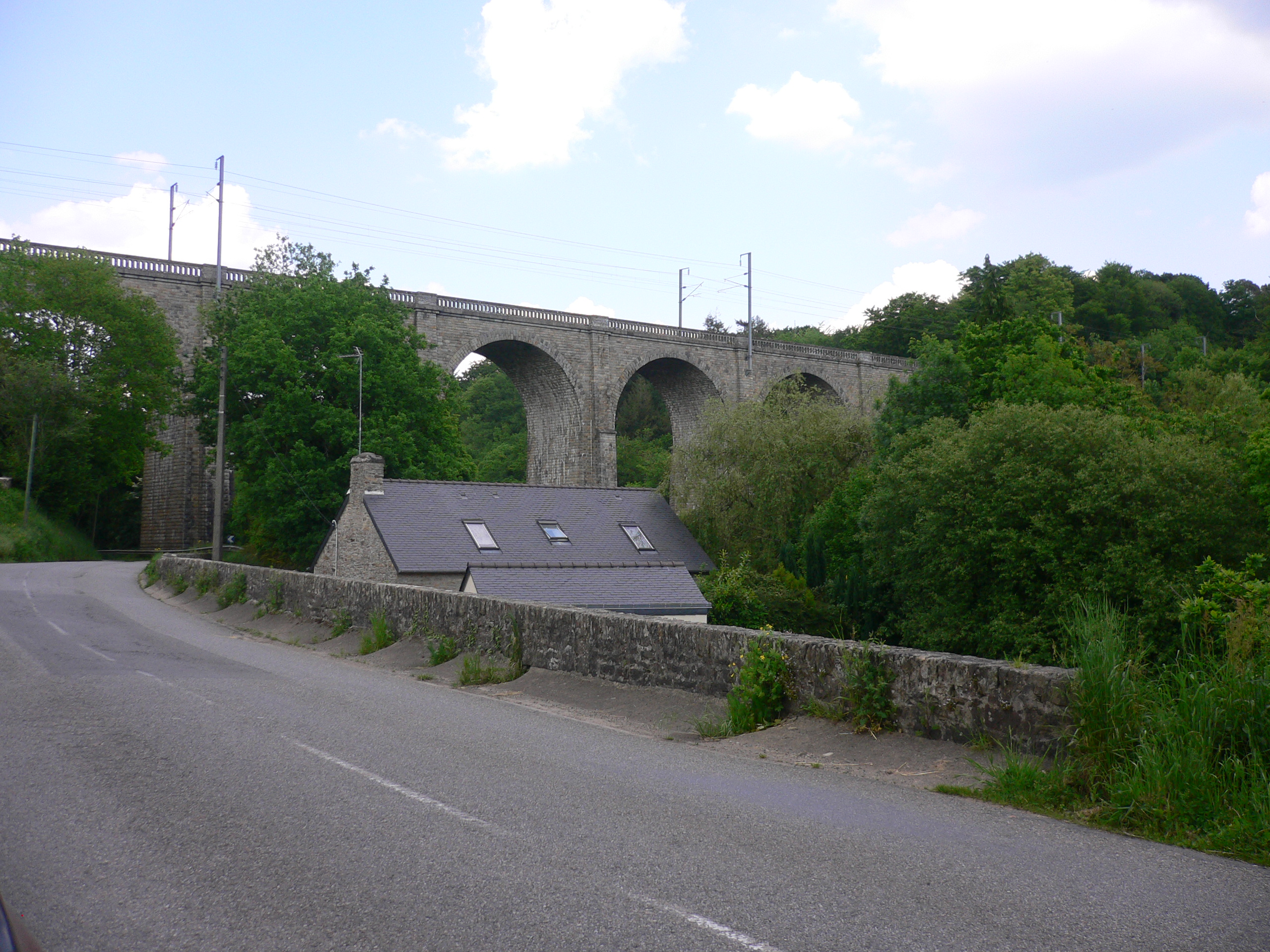 Railway bridge over the Laïta in Quimperlé, Brittany.